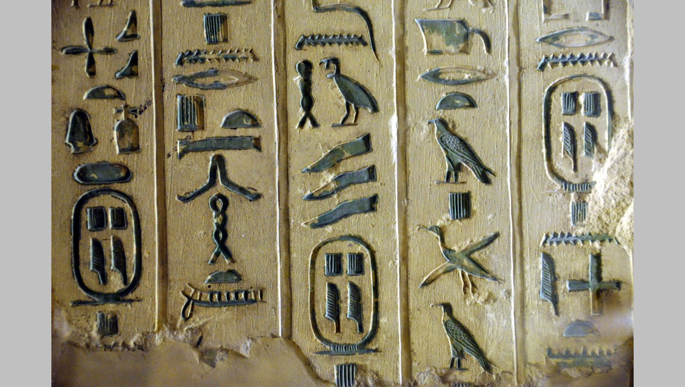 Pyramid texts for King Pepi I. from his pyramid at Saqqara. Detail of a painted limestone fragment from the North wall of the antechamber. Dynasty 6, about 2250 B.C. The Petrie Museum, London.